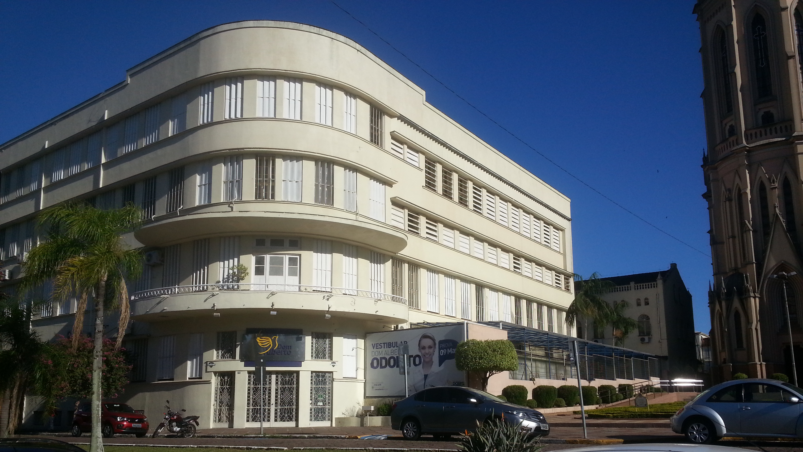 Faculdade Dom Alberto building